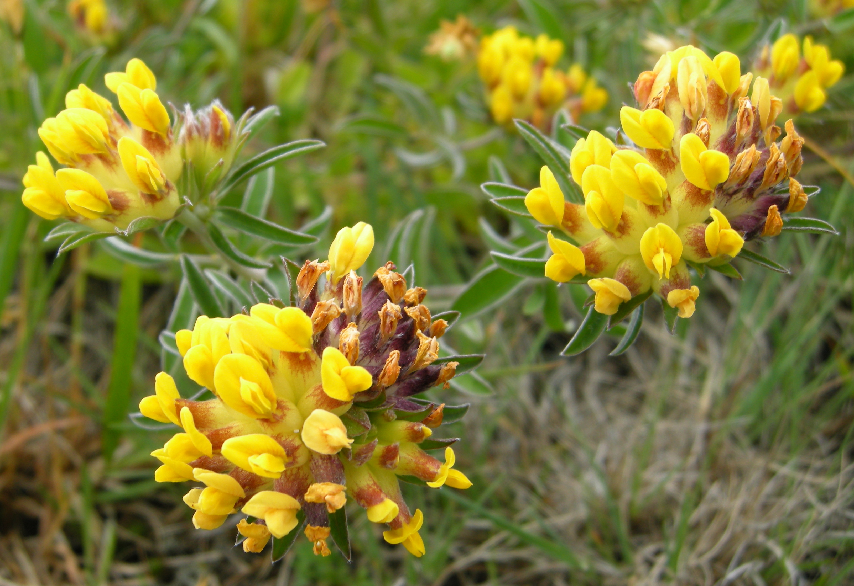 Kidney vetch - Anthyllis vulneraria, Mølen, Norway